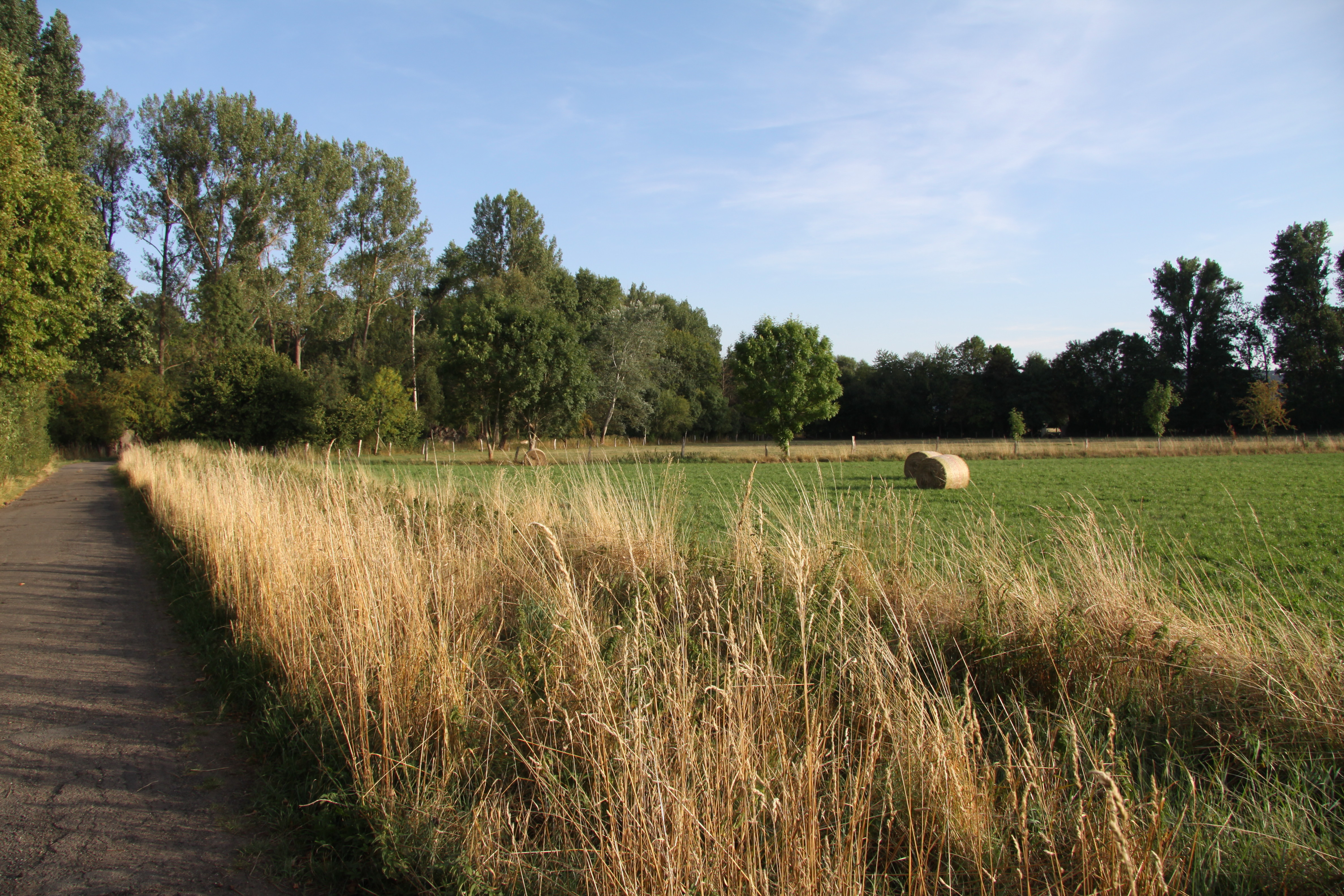 Protected landscape Vilgensee with trees and bushes (nordwest). It is lying between the villages Dettum and Ahlum in Lower Saxon near Wolfenbüttel.